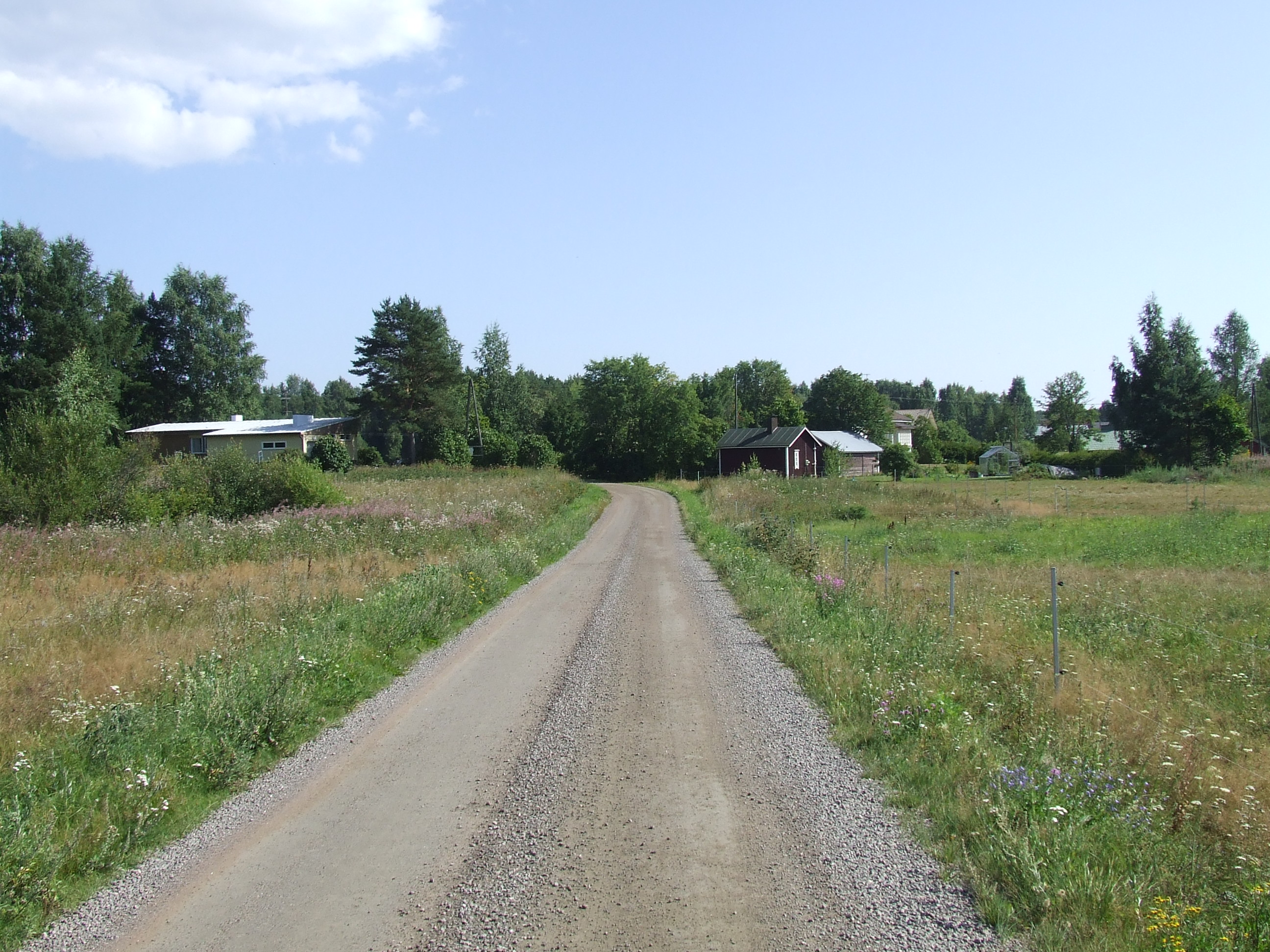 Mäntlahti village in Hamina, Finland.